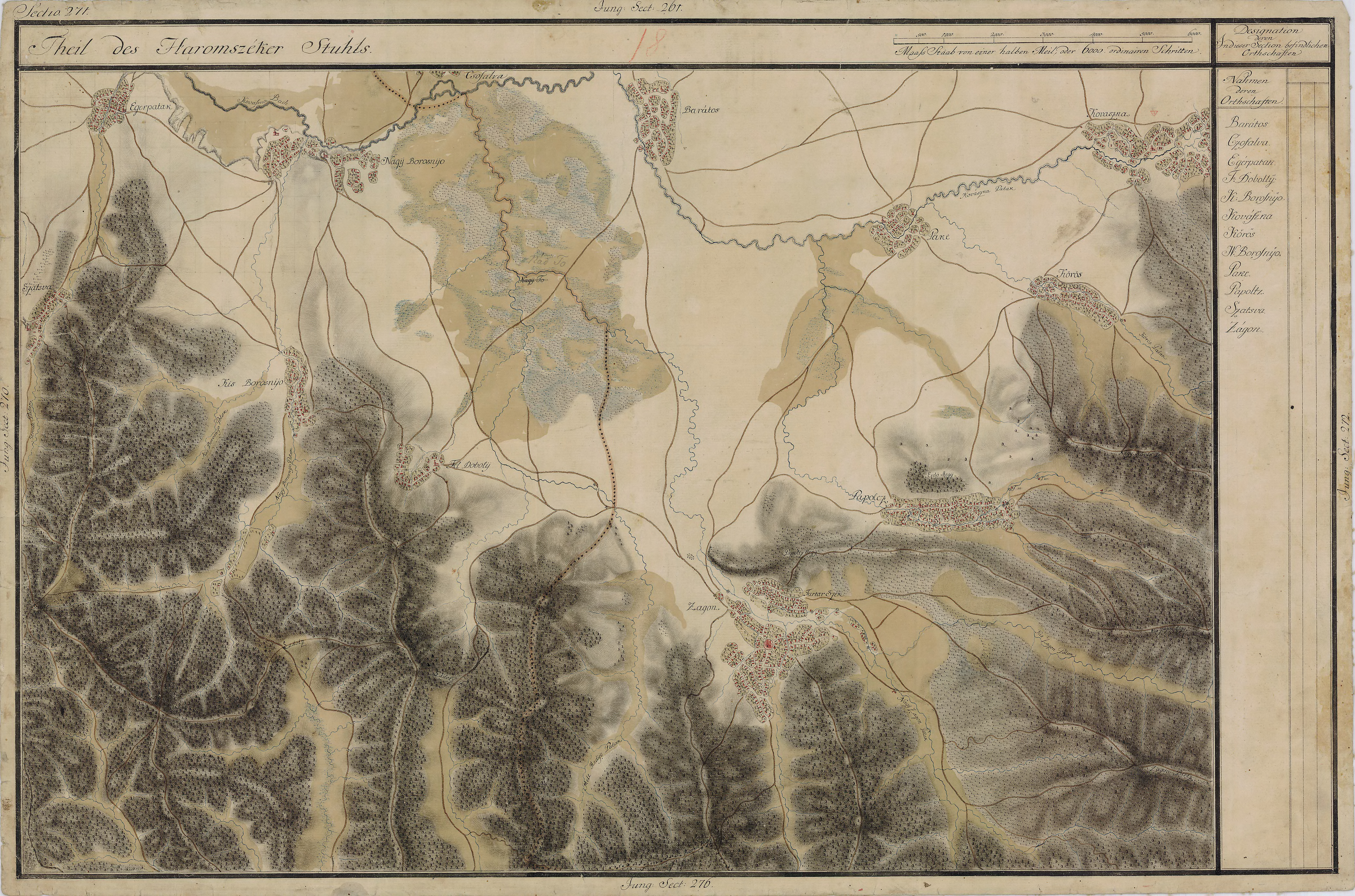 Grand Duchy of Transylvania, 1769-1773. Josephinische Landaufnahme pg.271